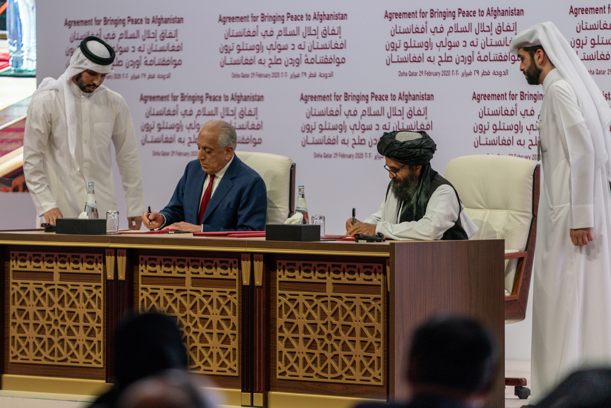 US representative Zalmay Khalilzad (left) and Taliban representative Abdul Ghani Baradar (right) sign the agreement in Doha, Qatar on February 29, 2020. [State Department photo by Ron Przysucha/ Public Domain]